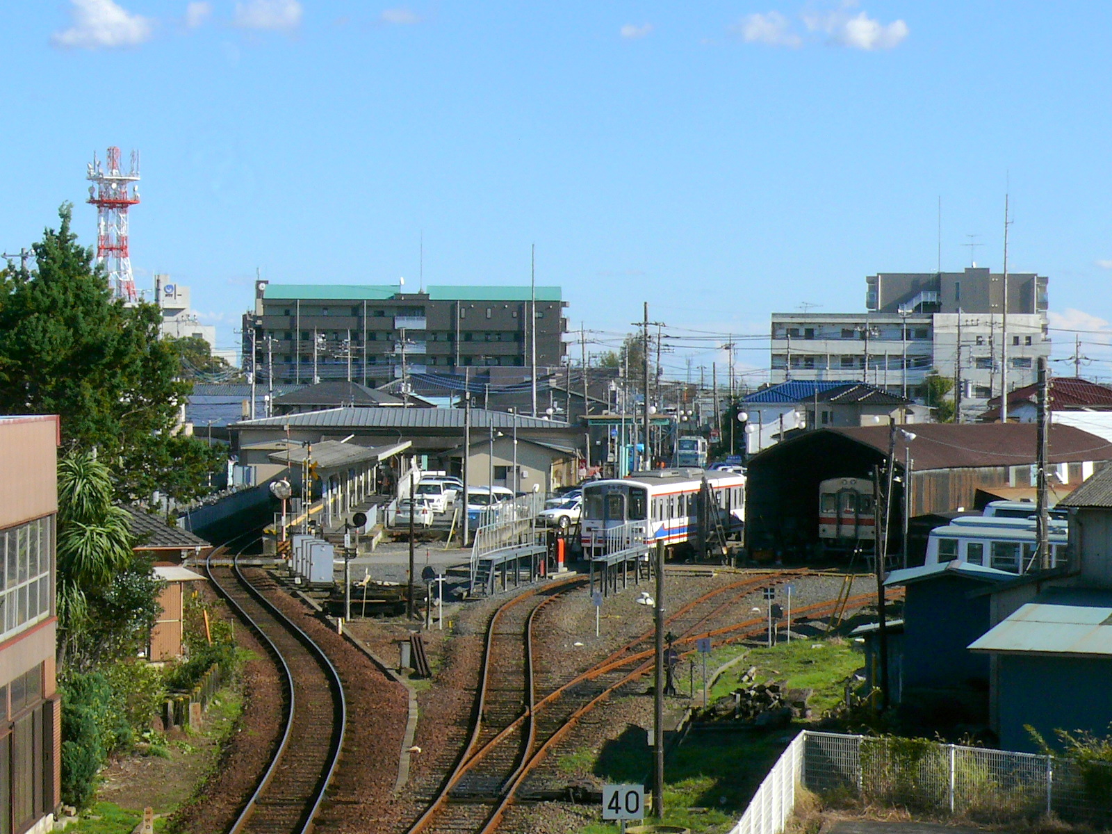 Kanto Railway Ryugasaki Line.